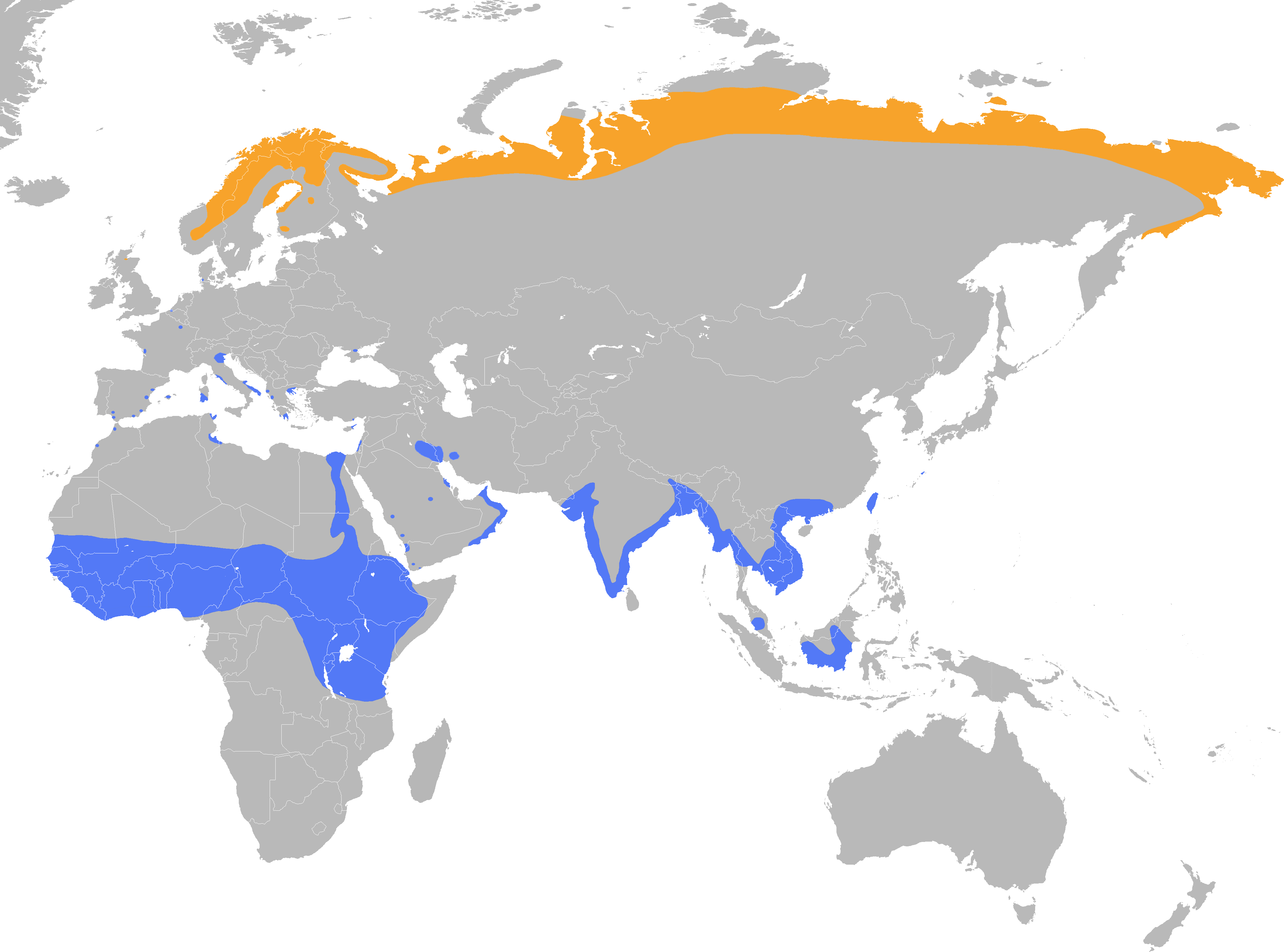 Temminck's Stint (Calidris temminckii) distribution map